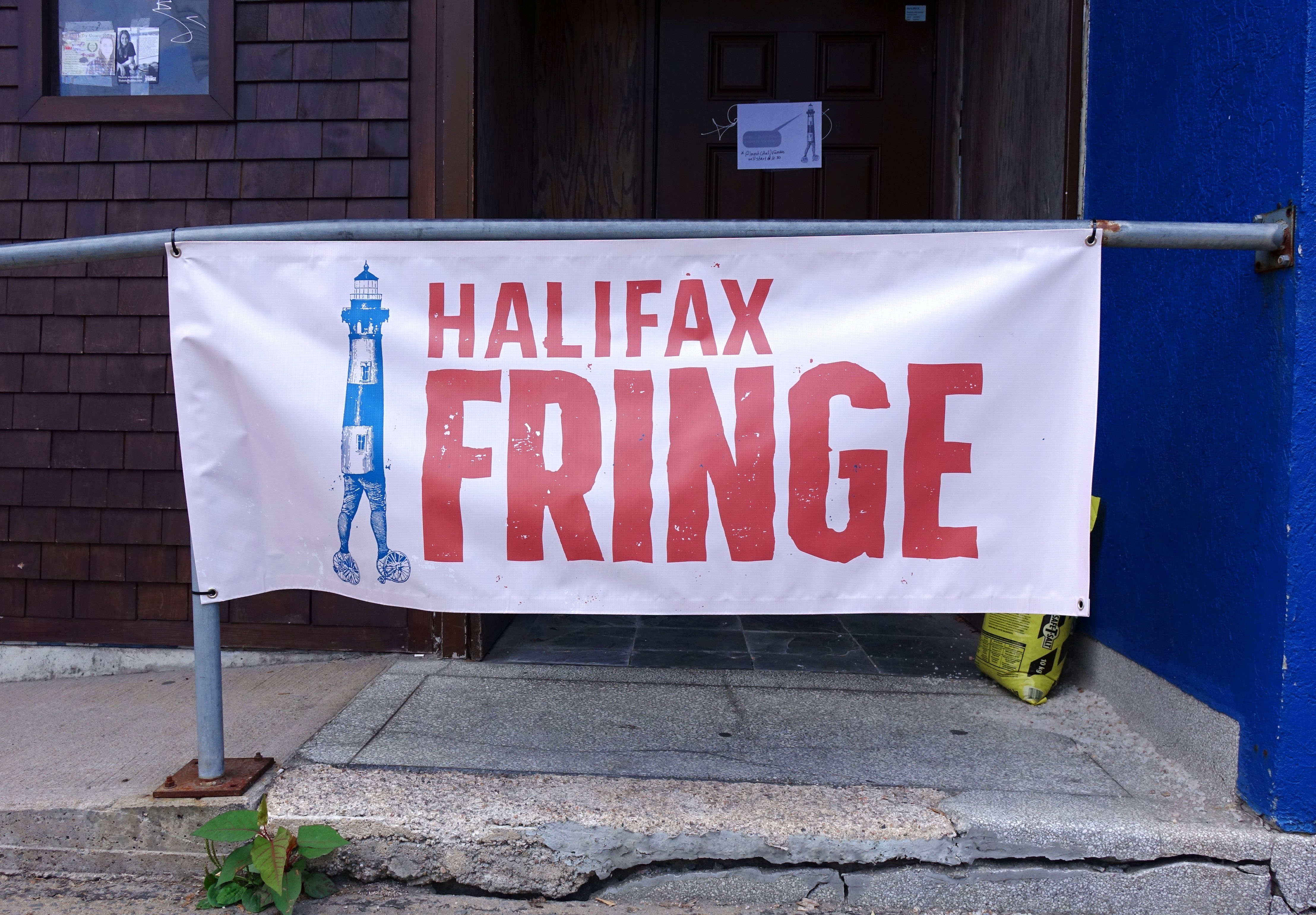 This photo taken on September 1, 2018, shows the banner and logo of the 2018 edition of the Halifax Fringe Festival in front of The Old Theatre Company at 2202 Gottingen Street in the North End of Halifax, Nova Scotia, Canada. Halifax Fringe Festival Full Photo Album